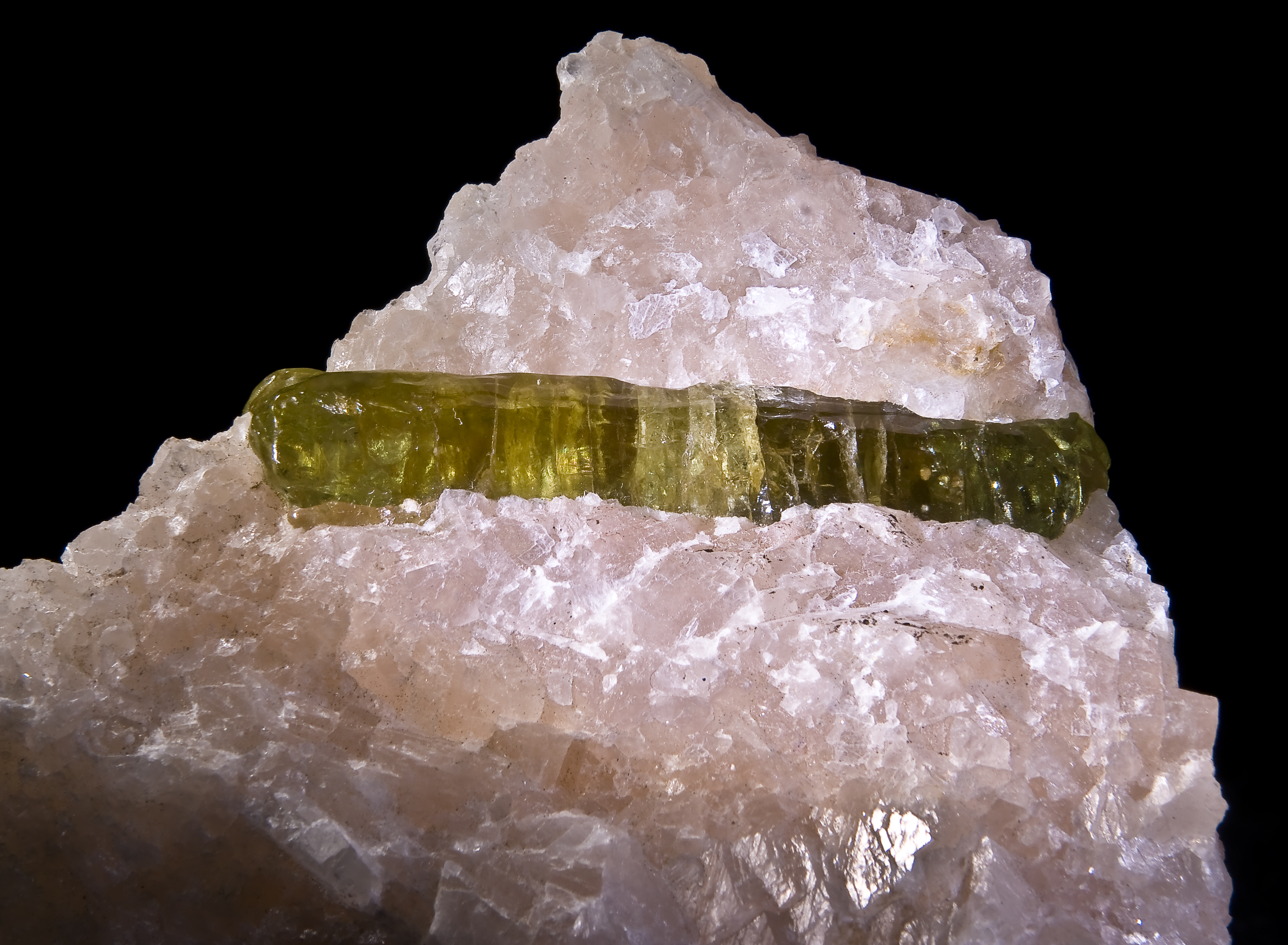 Apatite-(CaF) (Fluorapatite) var. Trilliumite - Doubly-terminated crystal in calcite Locality: Liscombe Apatite occurrence, Cardiff Township, Haliburton County, Ontario, Canada Size of crystal 4.6cm